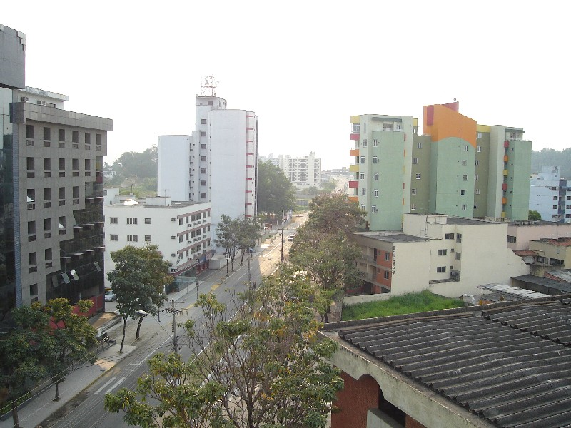 Castelo Branco Avenue, in Resende, state of Rio de Janeiro, Brazil